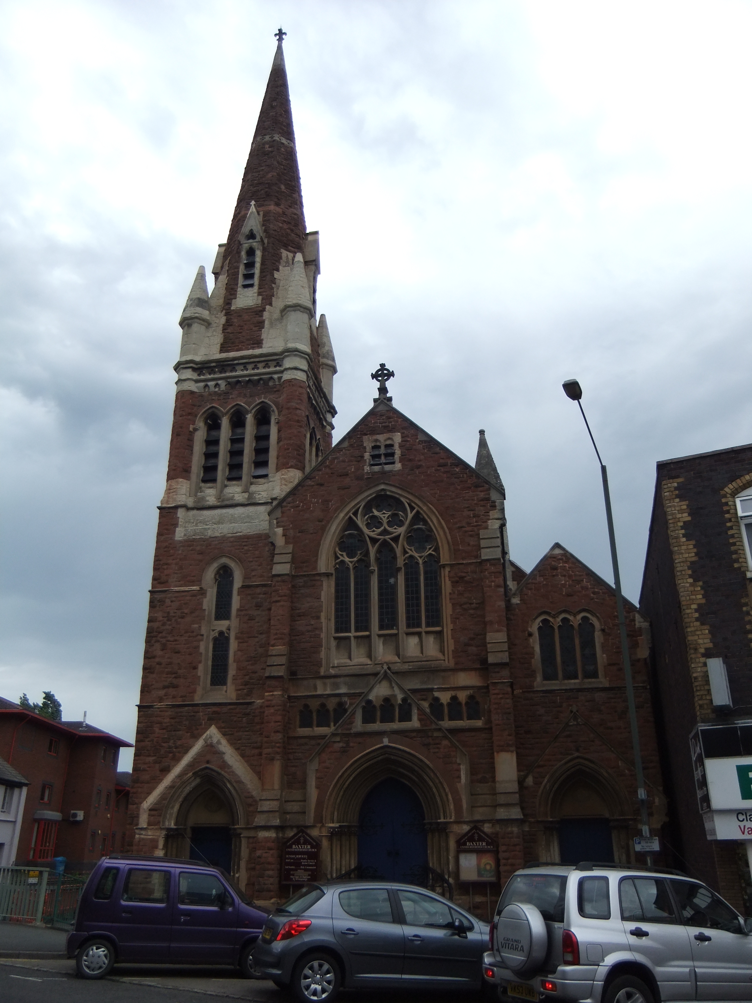 Baxter United Reformed Church, Kidderminster, Worcestershire, England.